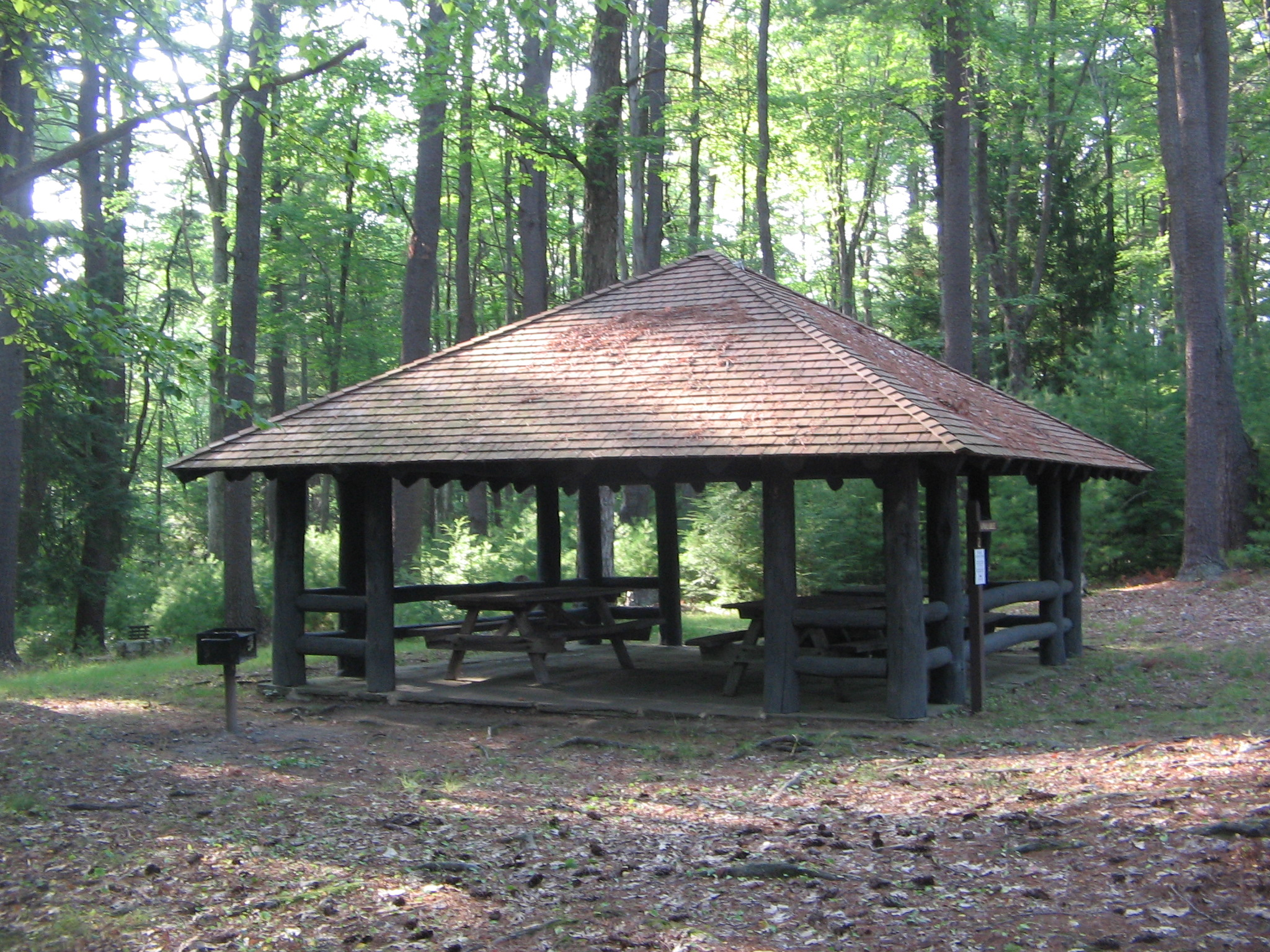 CCC-built Picnic Shelter 2 (south and east sides) in Colton Point State Park in Shippen Township, Tioga County, Pennsylvania, United States.